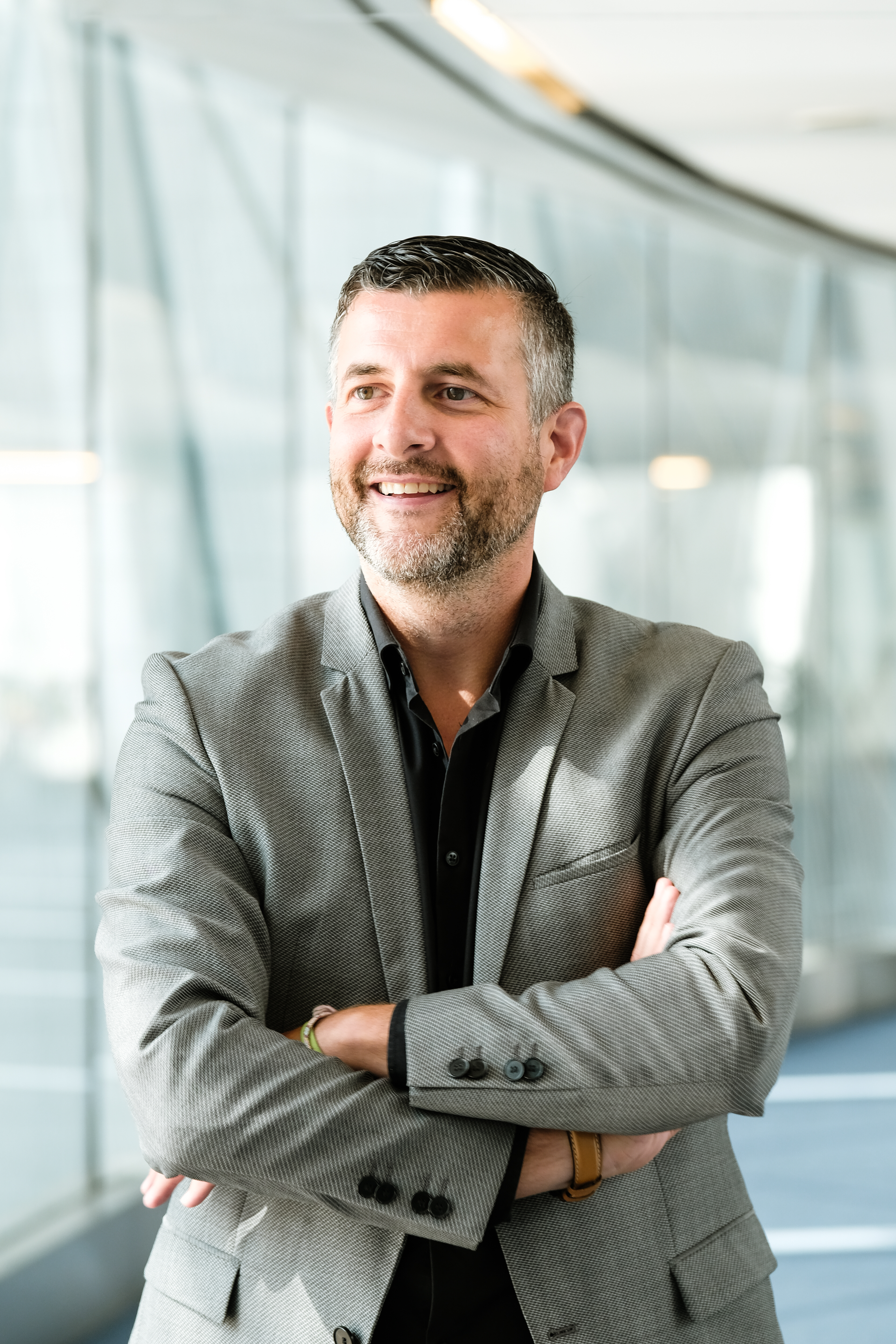 Pascal Arimont, Member of the European Parliament